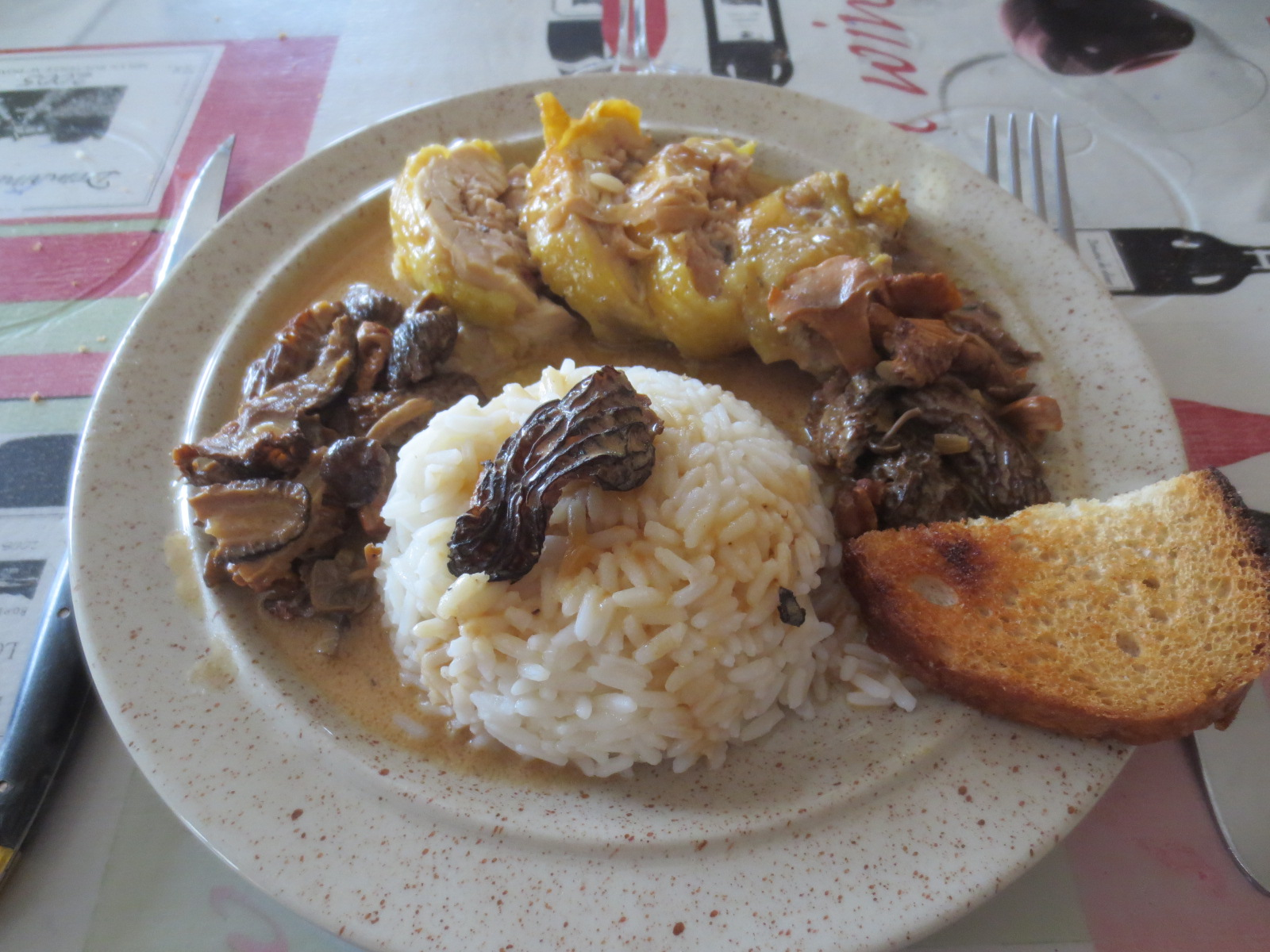 Chicken with morels and rice